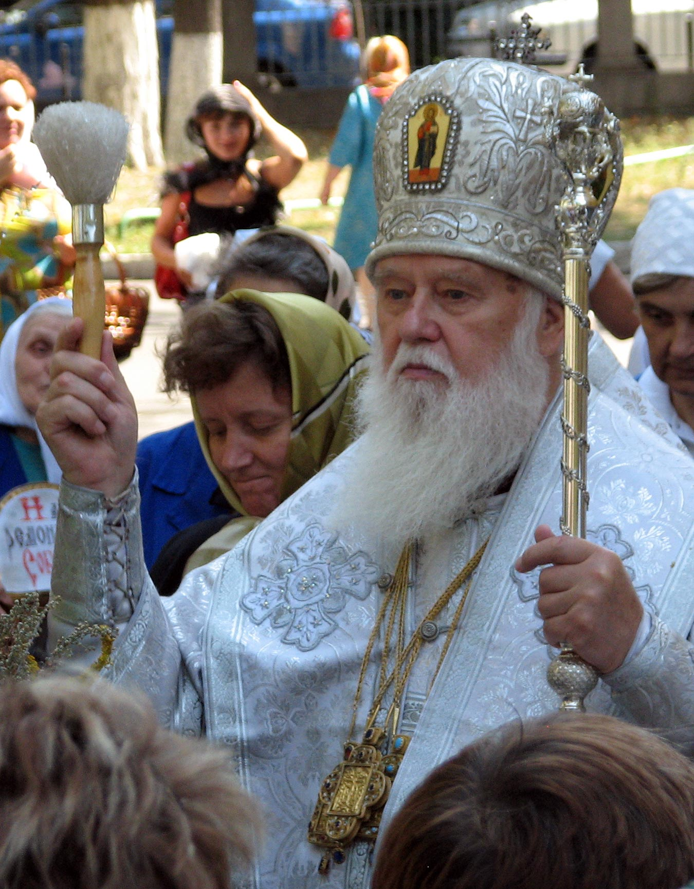 Patriarch Filaret (Denysenko) outside Volodymyrska church in Kiev, Ukraine